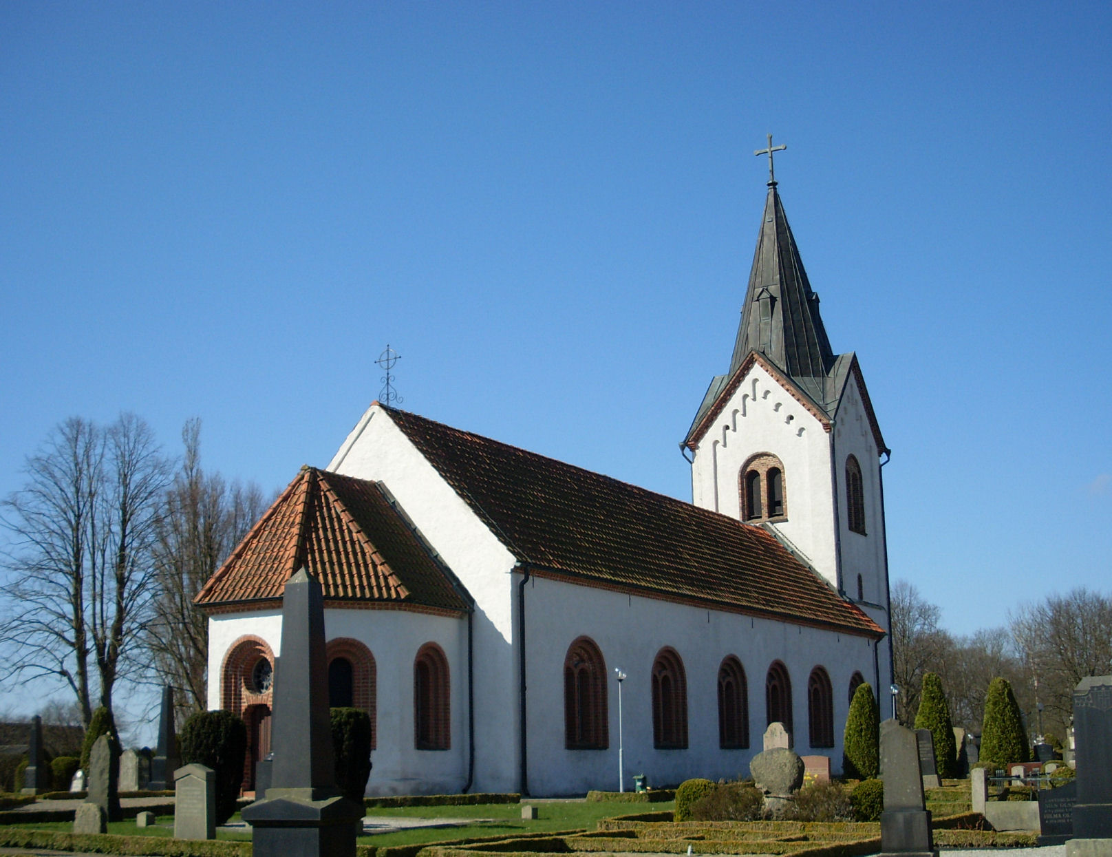 The church of Kyrkheddinge in southern Sweden